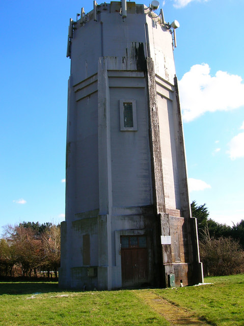 Old Water Tower, Friston. Taken from Willingdon Road looking South East.